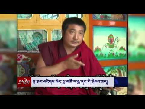 Jigme Guri recounting the horrors on VOA.